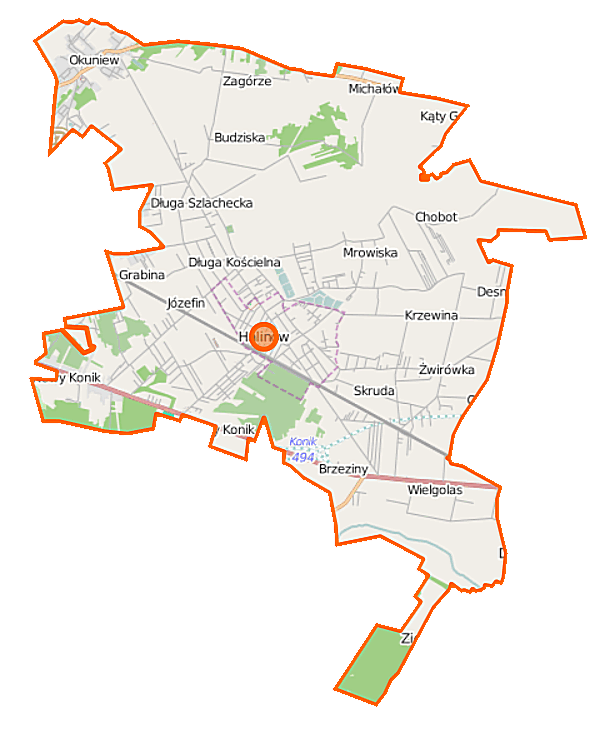 Map of Gmina Halinów, Poland This map of Halinów (gmina) was created from OpenStreetMap project data, collected by the community. This map may be incomplete, and may contain errors. Don't rely solely on it for navigation. Border coordinates52.282421.2805←↕→21.448152.1588